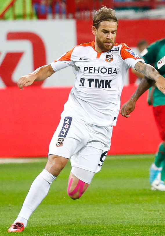 Eric Bicfalvi